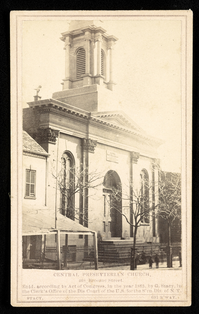 Central Presbyterian Church in New York City, 1863